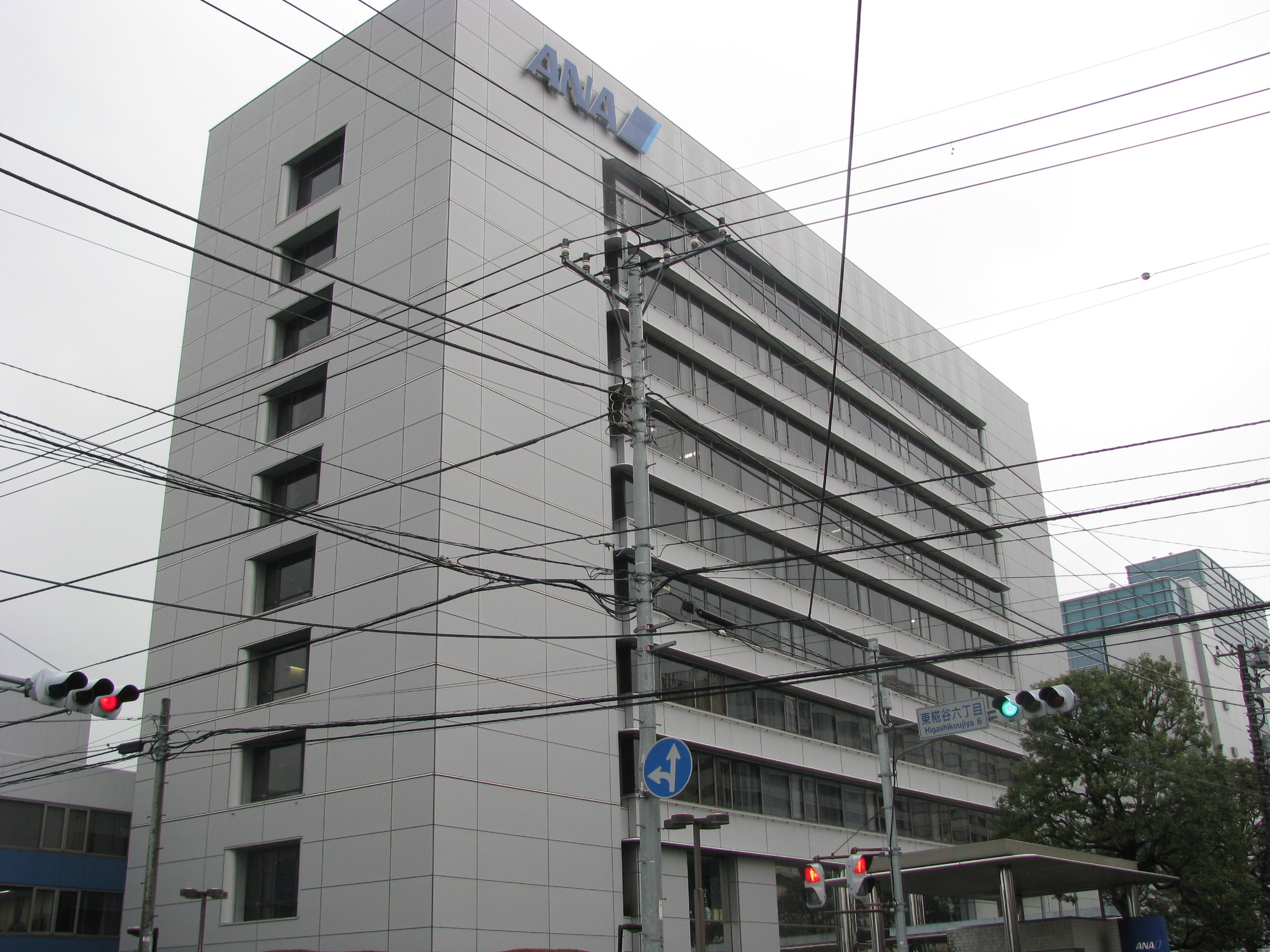 The ANA Training Center. Includes the headquarters of Air Japan